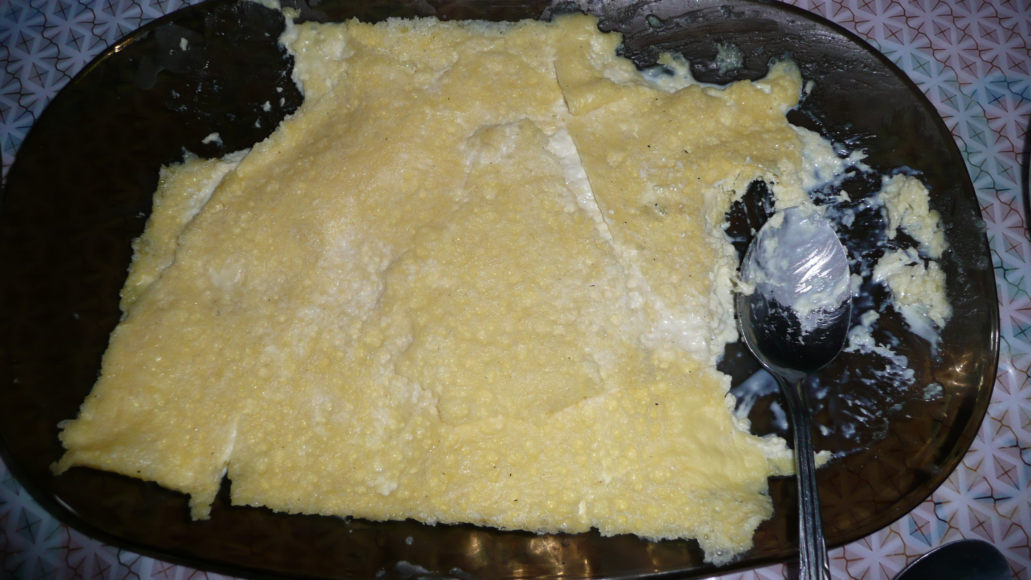 Öröm)